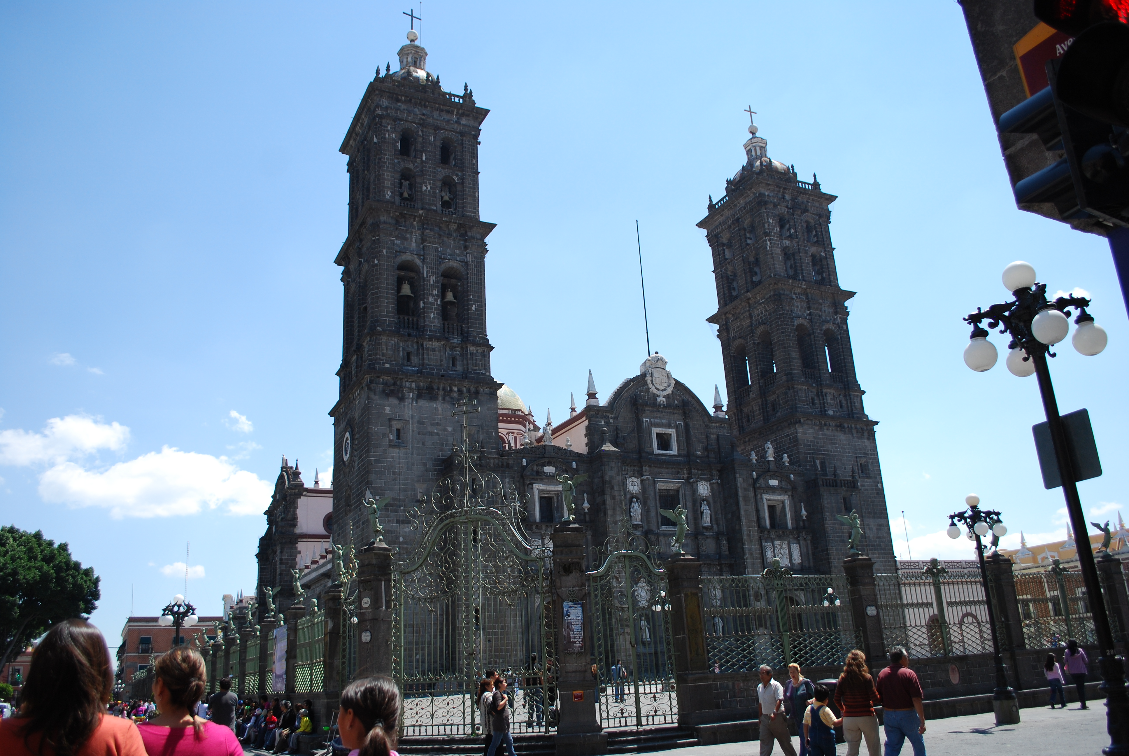 Facade of the Cathedral of Puebla, Mexico